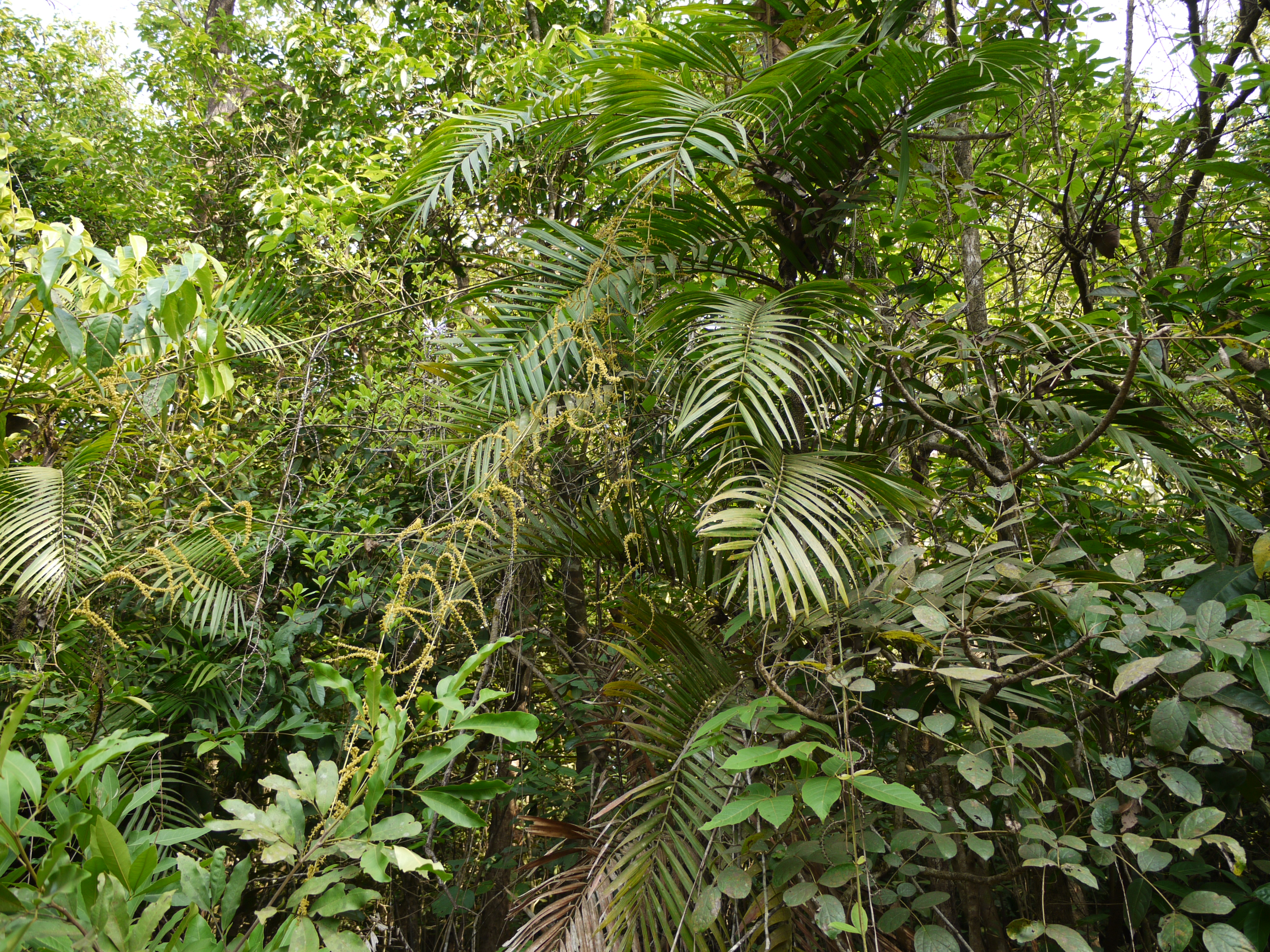 Arecaceae (palm family) » Calamus pseudotenuis KAL-uh-mus -- from the Greek kalamos, meaning reed soo-doh-TEN-yoo-iss -- from the Greek pseudo (false), tenuis (slender, thin) commonly known as: slender rattan • Kannada: ಒಂಟಿಬೆತ್ತ ontibetta • Konkani: वेत veta • Malayalam: ചെറുചൂരല്‍ cerucuural • Marathi: वेत veta Endemic to: s Western Ghats (of India), Sri Lanka References: PalmWeb • INBAR • Flora of Western Ghats • Dandeli Wildlife